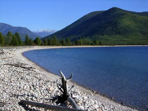 Bay of Frolikha river Lake Baikal Russia